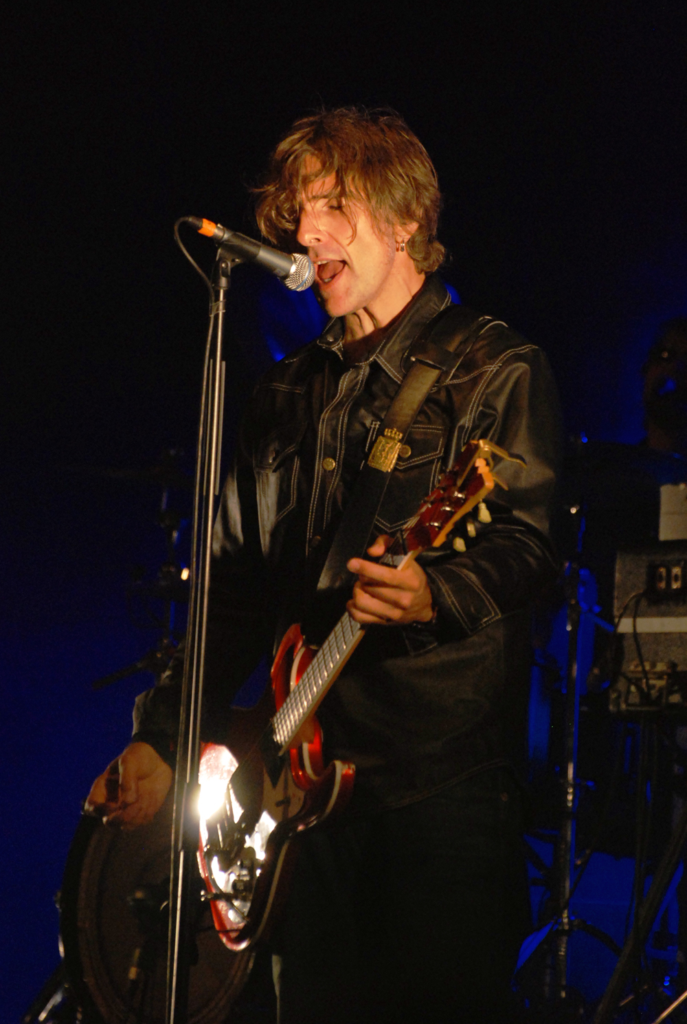 Kjartan Kristiansen of DumDum Boys live at Strandgateparken in Hamar, Hedmark, Norway.